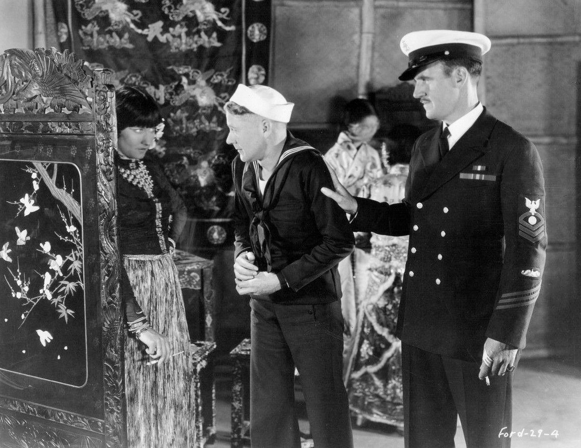 Photo of a scene from the film Men Without Women. The sailor appears to be Stuart Erwin and the officer Kenneth MacKenna.